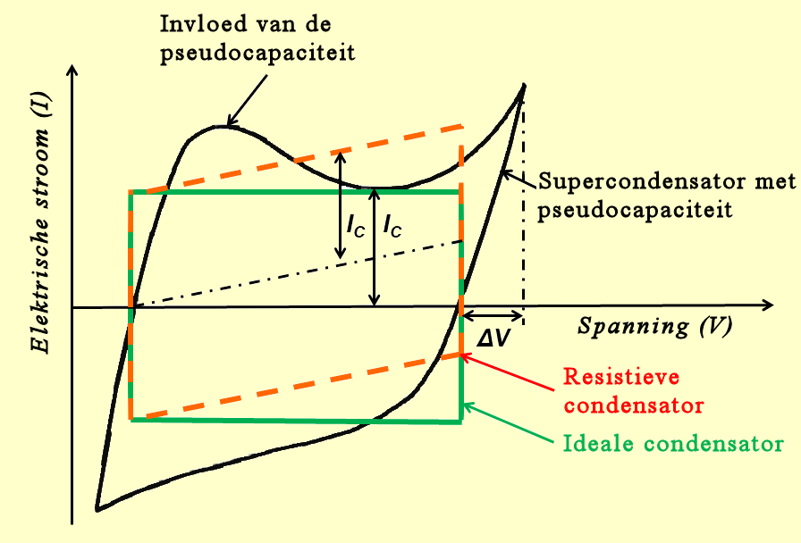 Voltagram of a supercapacitor with pseudocapacitance compered with other capacitor voltagrams. (Now with Dutch txt